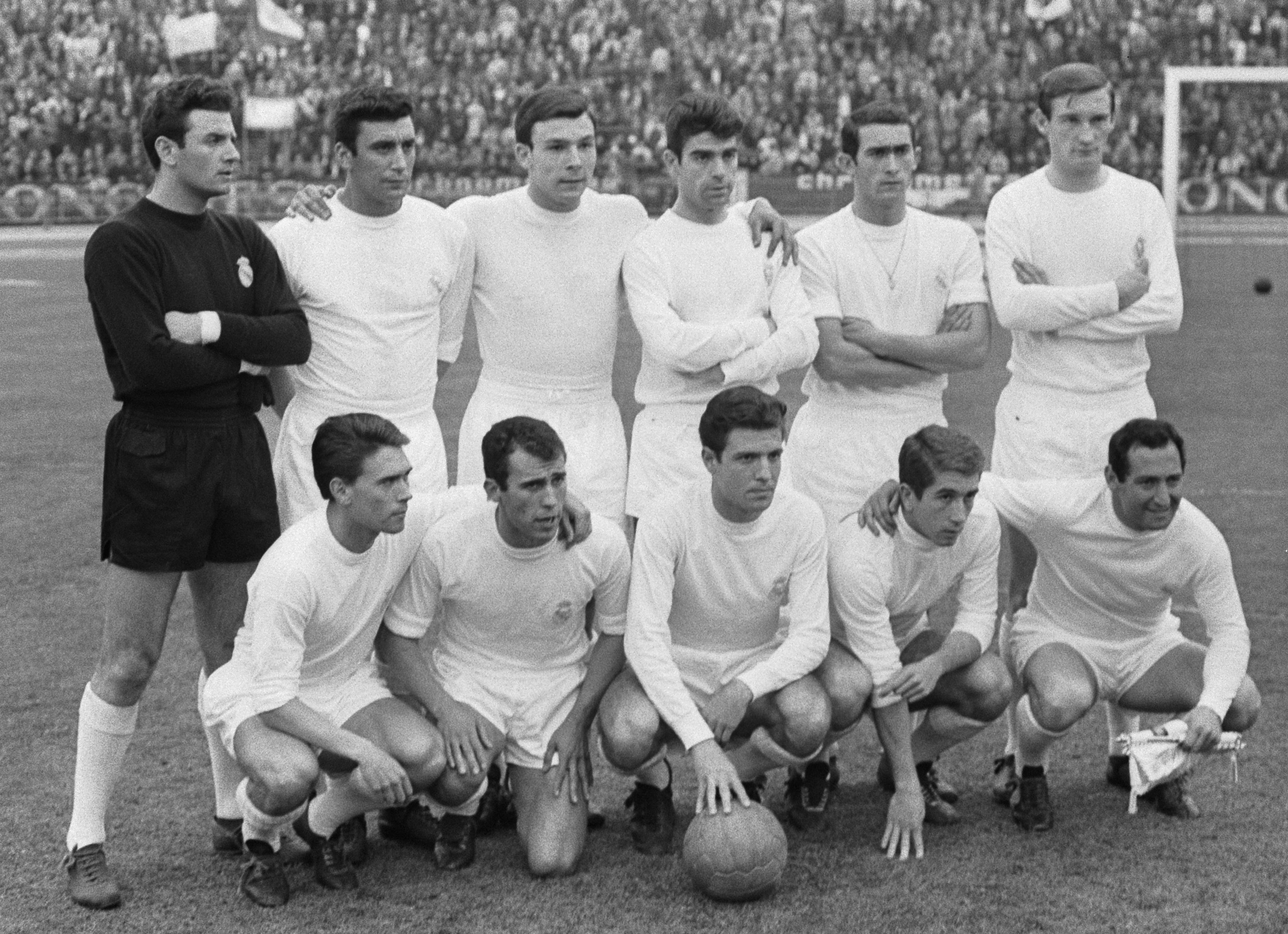 Real Madrid before the European Cup final against FK Partizan in the Heysel Stadium, Brussels. Standing, from left to right: José Araquistáin, Pachín, Pedro de Felipe, Manuel Sanchís Martínez, Pirri, Ignacio Zoco. Kneeling, from left to right: Fernando Serena, Amancio Amaro, Ramón Grosso, Manuel Velázquez, Francisco Gento.